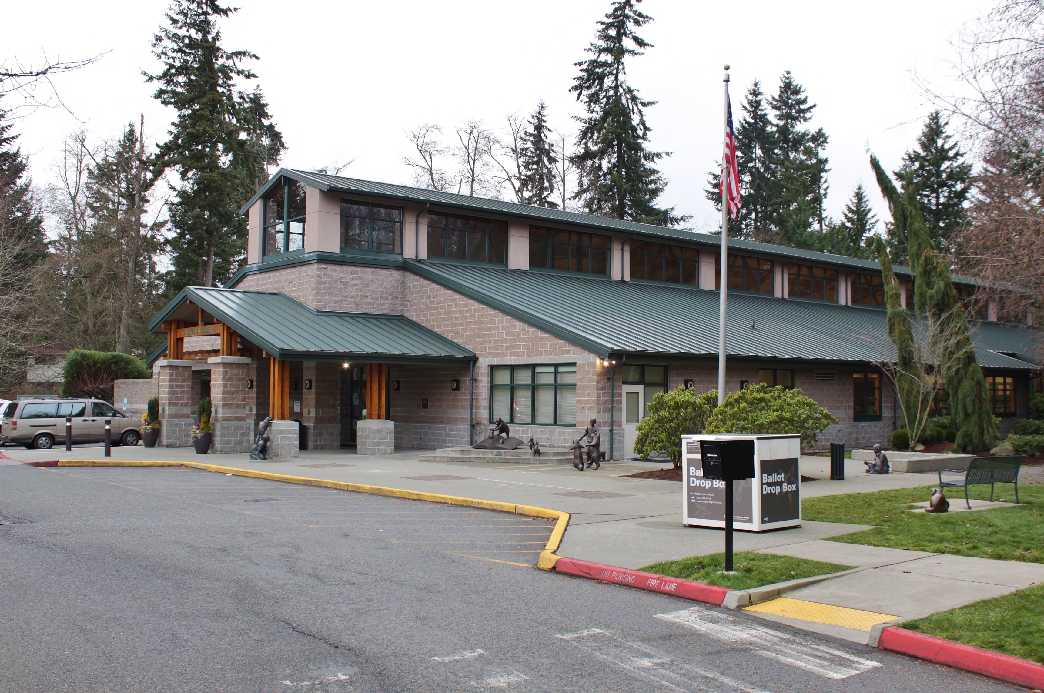 The public library of Mukilteo, Washington, operated by Sno-Isle Libraries, and an adjacent ballot box.